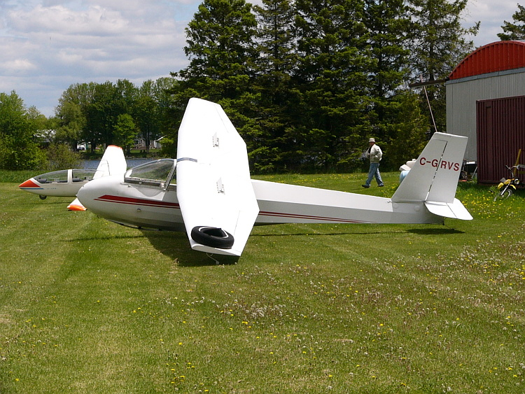 I took this photo of a Schweizer SGS 2-33 (C-GRVS) at Kars/Rideau Valley Air Park on 24 may 2008